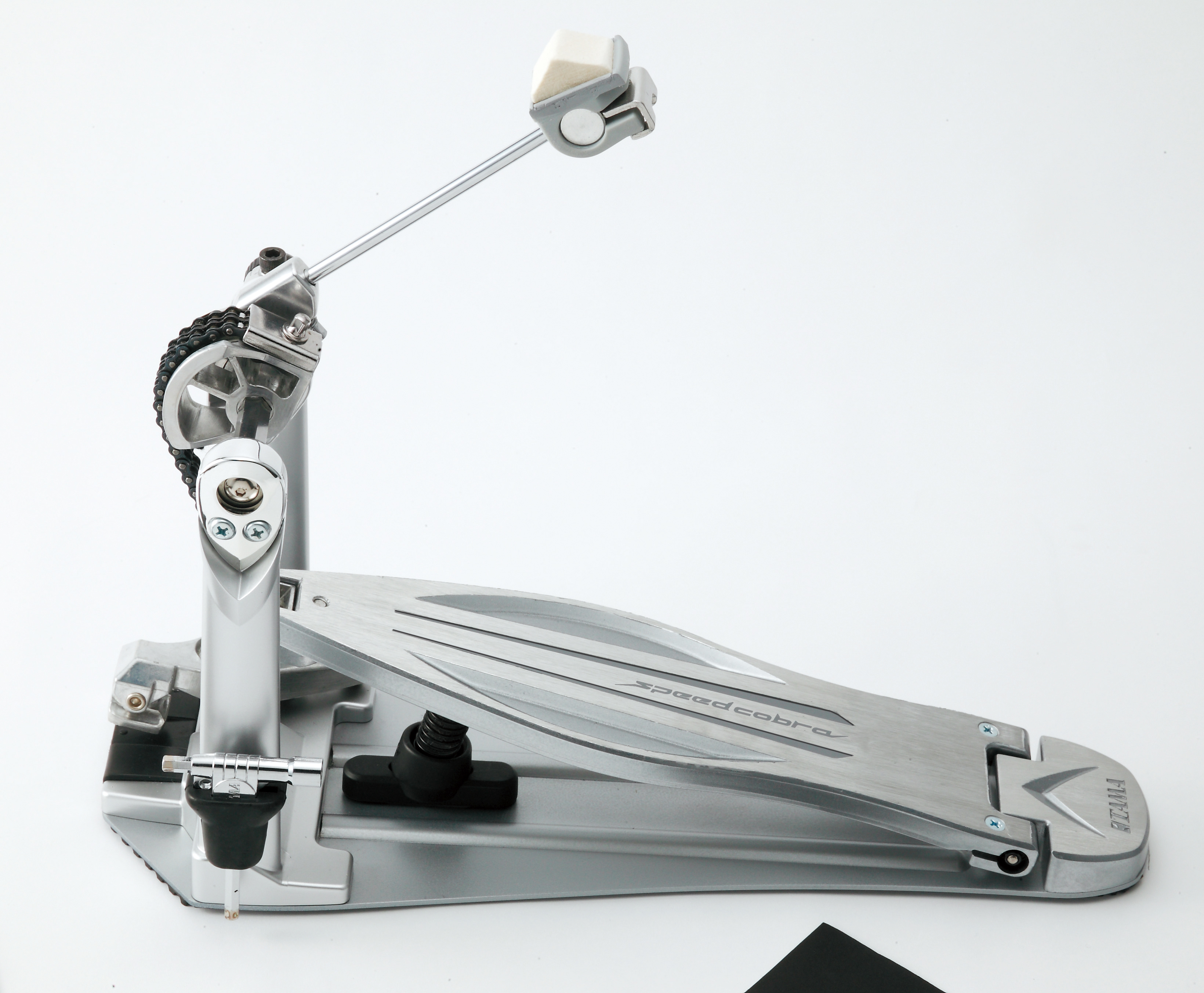 Side View Of The TAMA Speed Cobra Single Pedal